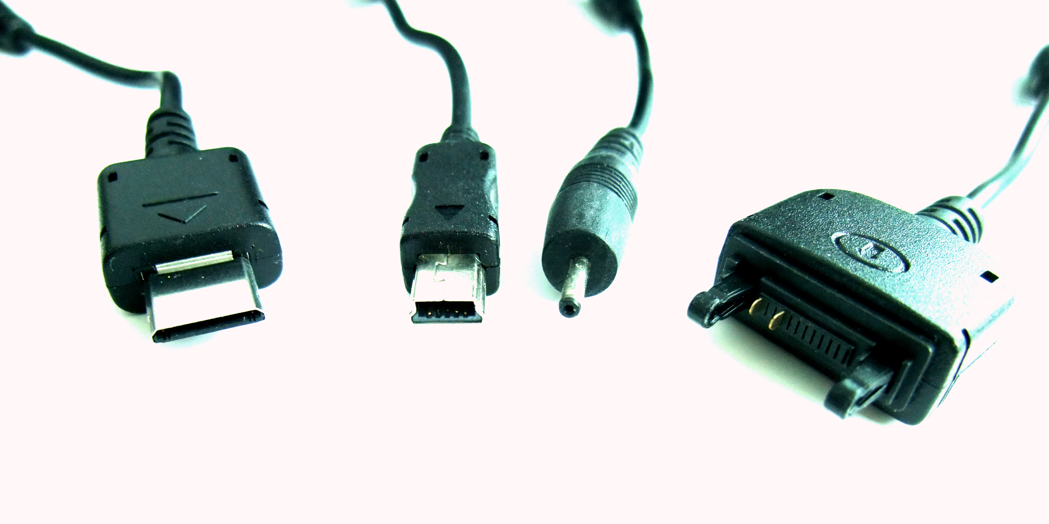 Charger connectors of different mobile phones (from the left: Samsung E900, Motorola V3, Nokia 6101, Sony Ericsson K750)